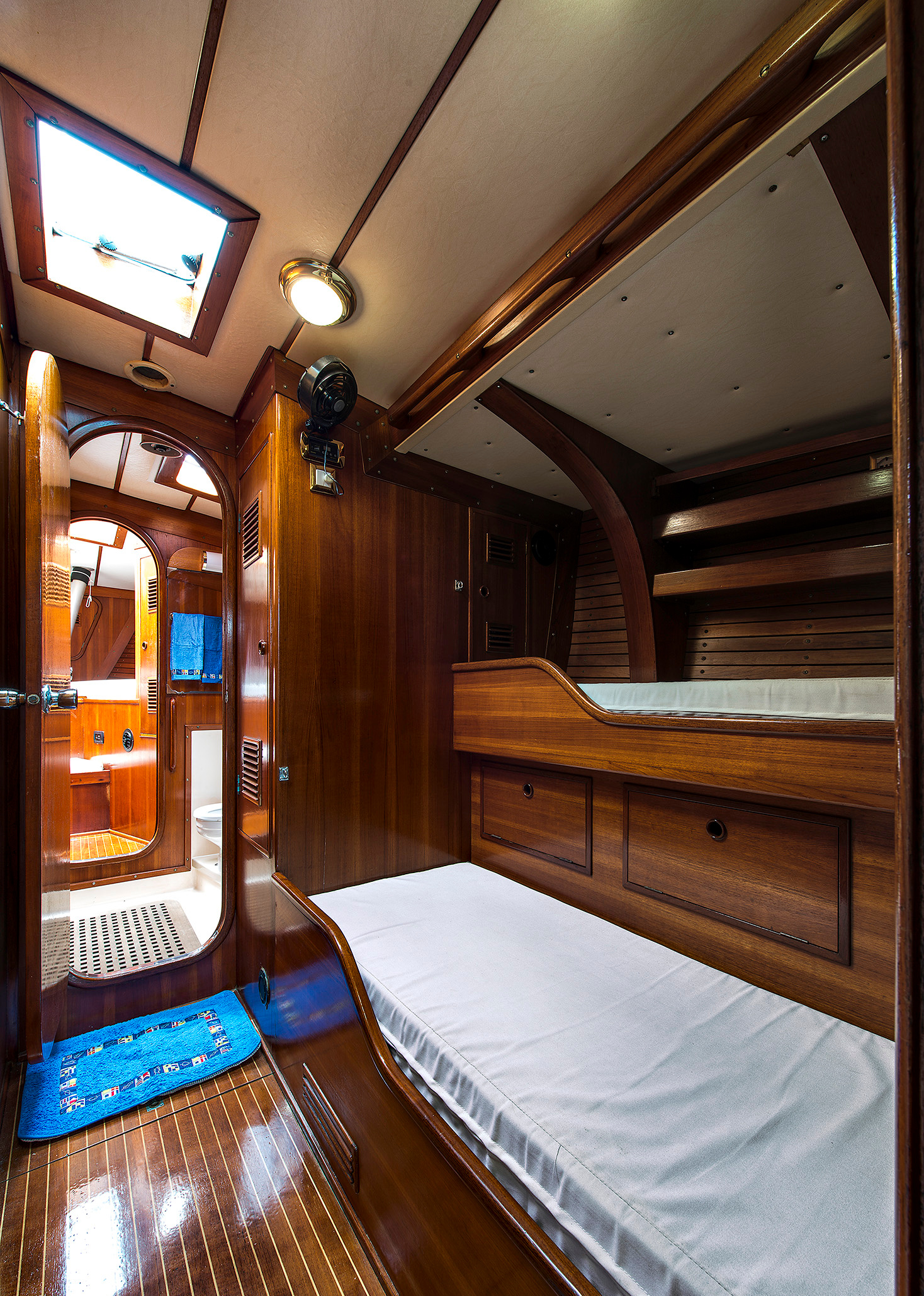 Swan Sail Yacht - Odile Marie